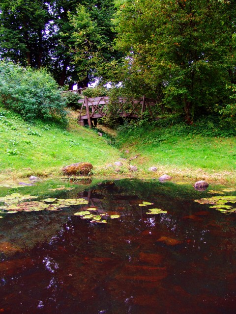 The English garden. Damsgård hovedgård, Bergen, Norway.